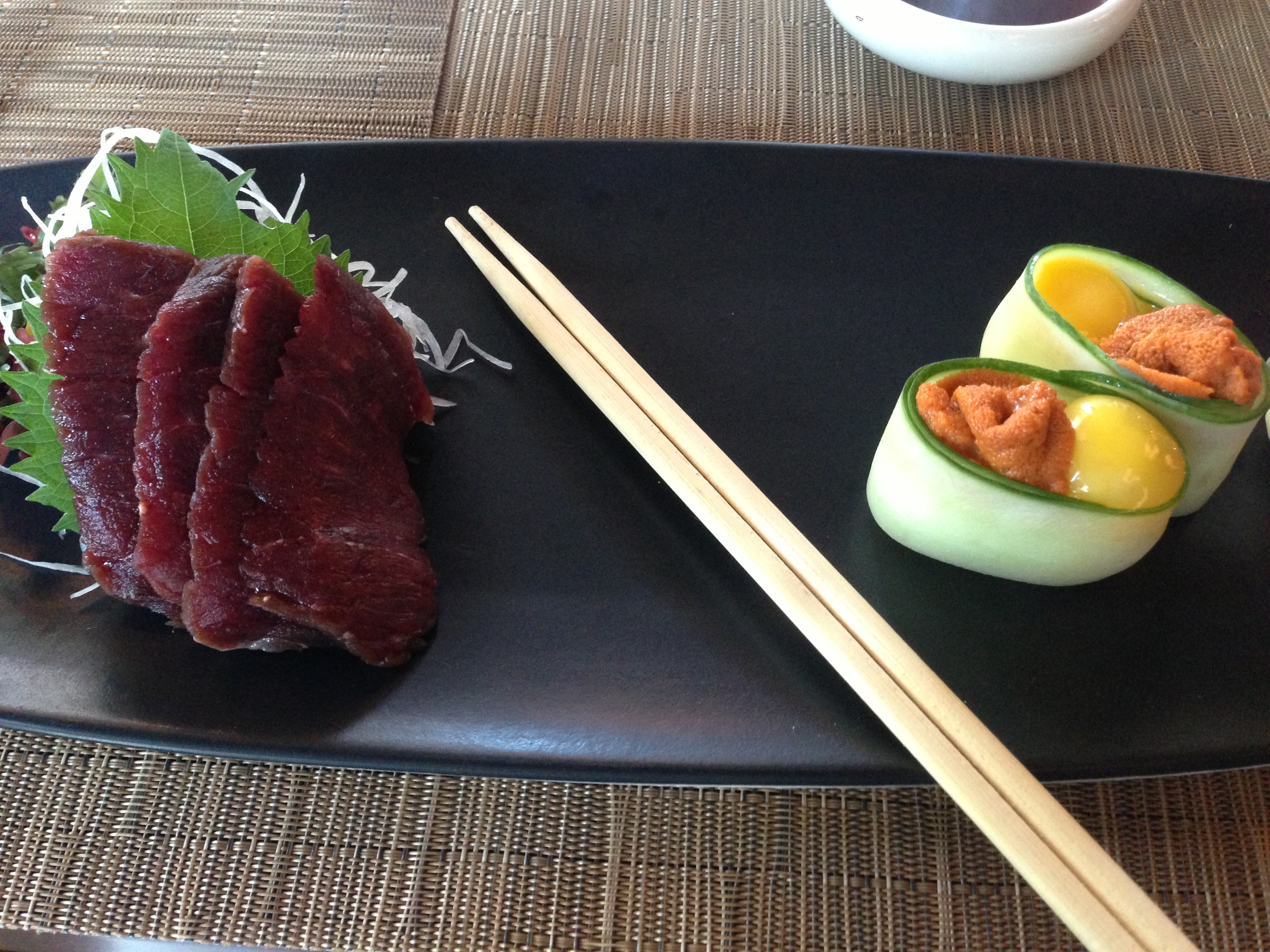 Blue whale meat sashimi and sea urchin sushi served in one of Moscow restaurants